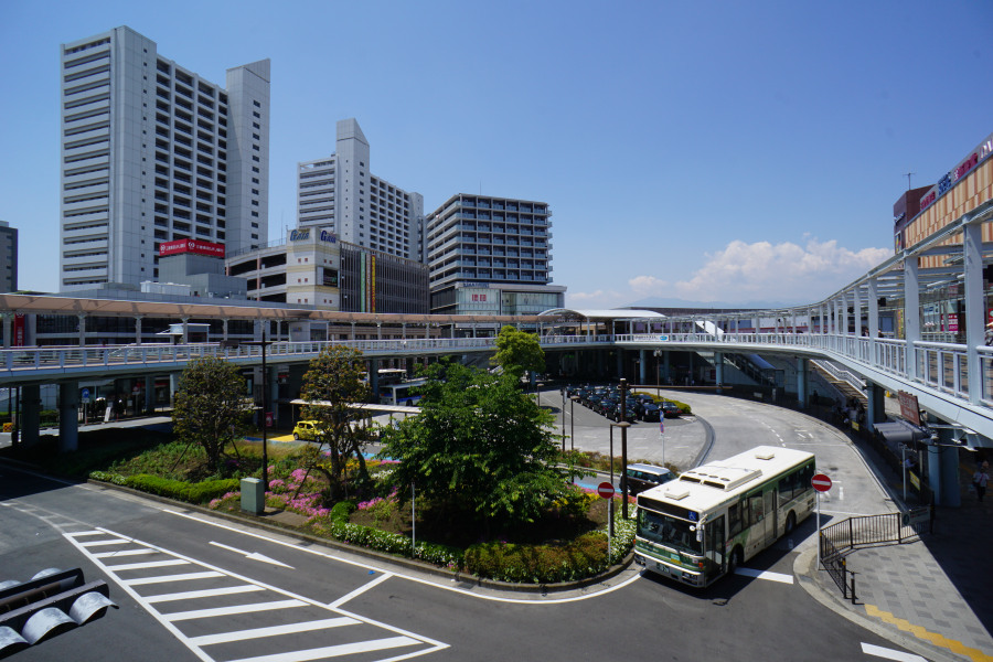 East exit of Ebina railway station (Odakyū and Sōtetsu), Kanagawa prefecture, Japan